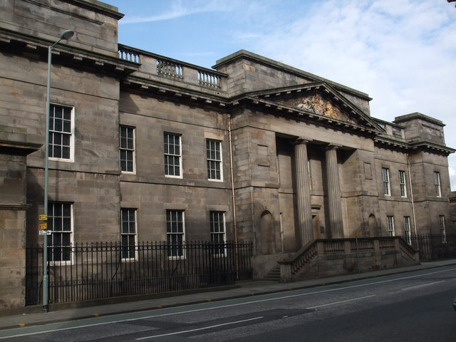 Customs House, Leith The sheer scale of this neo-classical building by the architect Robert Reid, 1810-1812 reflects the once importance of Leith's trading links with the Continent, the Baltic and elsewhere. Alas the building is now only used for storage.